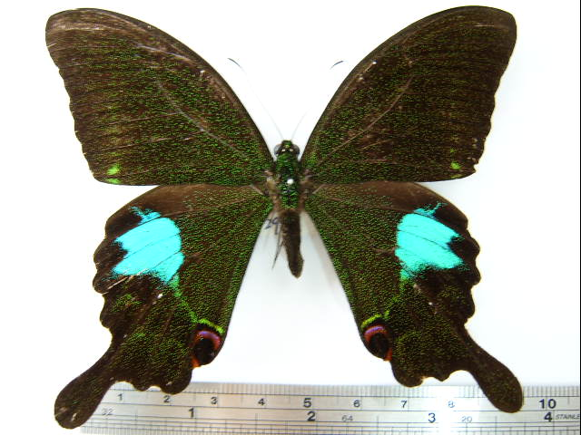 Kerry took this picture at his house on 16 July 2005 Scientific name: Papilio paris nakaharai ♂ (back) Date of collection: 29 XII 1996 Place of collection: Taipei city, Taiwan